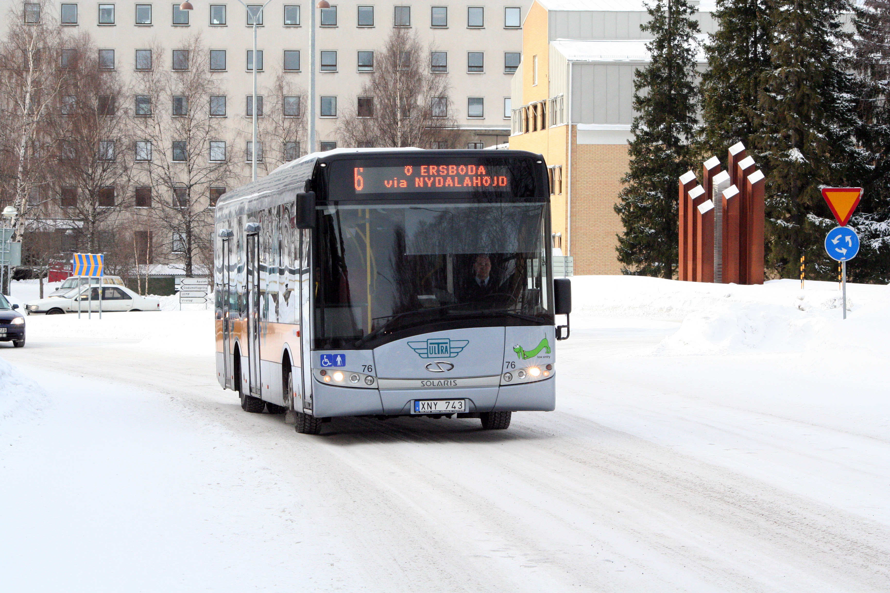 Solaris Urbino 12 LE bus (#76) in Umeå, Sweden. Built 2006, Swebus Umeå operator.